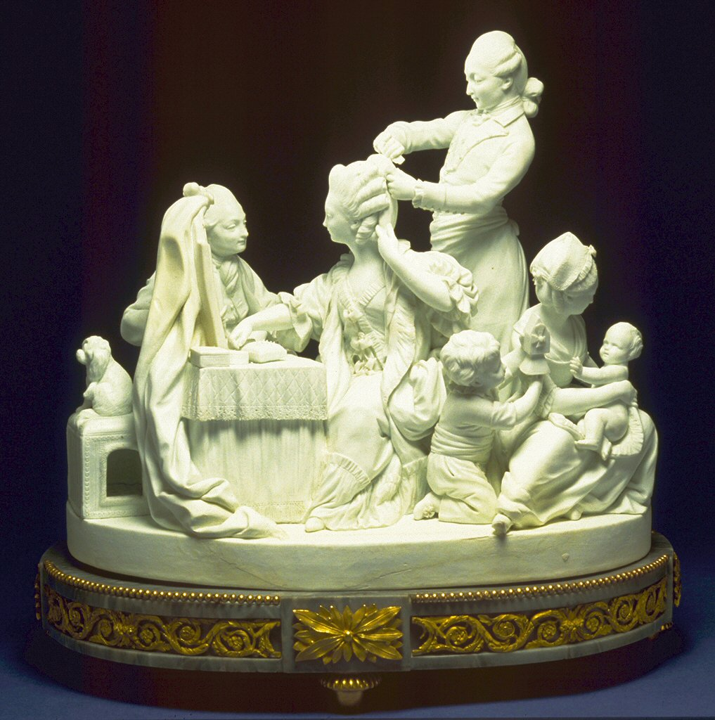 Louis-Simon Boizet provided the model for this statuette based on a print from Jean-Michel Moreau's series, "Les mœurs françaises." Portrayed is a domestic scene from upper-class life.